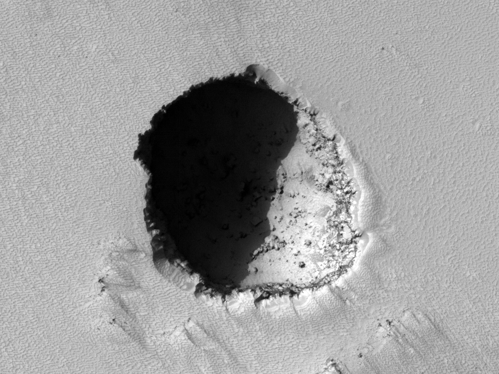 This is a cropped and sharpened version of a HiRISE image of a lava tube skylight on the martian volcano Pavonis Mons. The original caption for the photo on the HiRISE web site is as follows: This image was suggested by Dennis Mitchell's seventh grade Mars student team at Evergreen Middle School in Cottonwood, California as part of the HiRISE Quest Student Imaging Challenge. The students discovered this dark pit feature in a THEMIS image and submitted a HiRISE image suggestion to see a close-up of this feature and determine whether it might be a possible skylight cave. This image is located on the southeastern flank of Pavonis Mons, a large volcano located in the Tharsis Region of Mars. The dark, circular pit feature roughly in the middle of the image is about 180 meters at its widest diameter. The pit appears to be surrounded by small sand dunes. Although the western half of the pit is in shadow (see close-up a), the large dynamic range of the HiRISE camera allows one to see in the shadows (see close-up b). The interior of the pit consists of sediment-covered boulders that range in size from approximately 5 meters (approximately 16 ft) to less than 1 meter (approximately 3 feet) in diameter. The interior region of the pit appears to slope towards the northwest. Such pits may form from collapse of a surface "roof" below which lava may long ago have flowed, or as a result of removal of subsurface material due to erosion or extension. Written by: Evergreen Middle School and Ginny Gulick (15 June 2011)